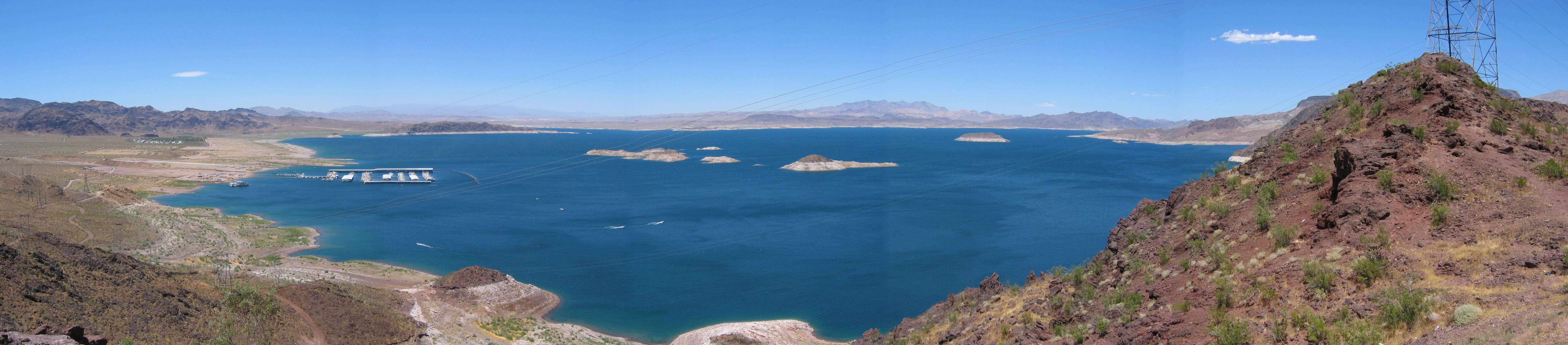 Panoramic view of Lake Mead.